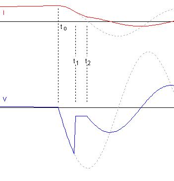 Current and voltage at circuit break in an inductor with arc formation and disparition. 2006.